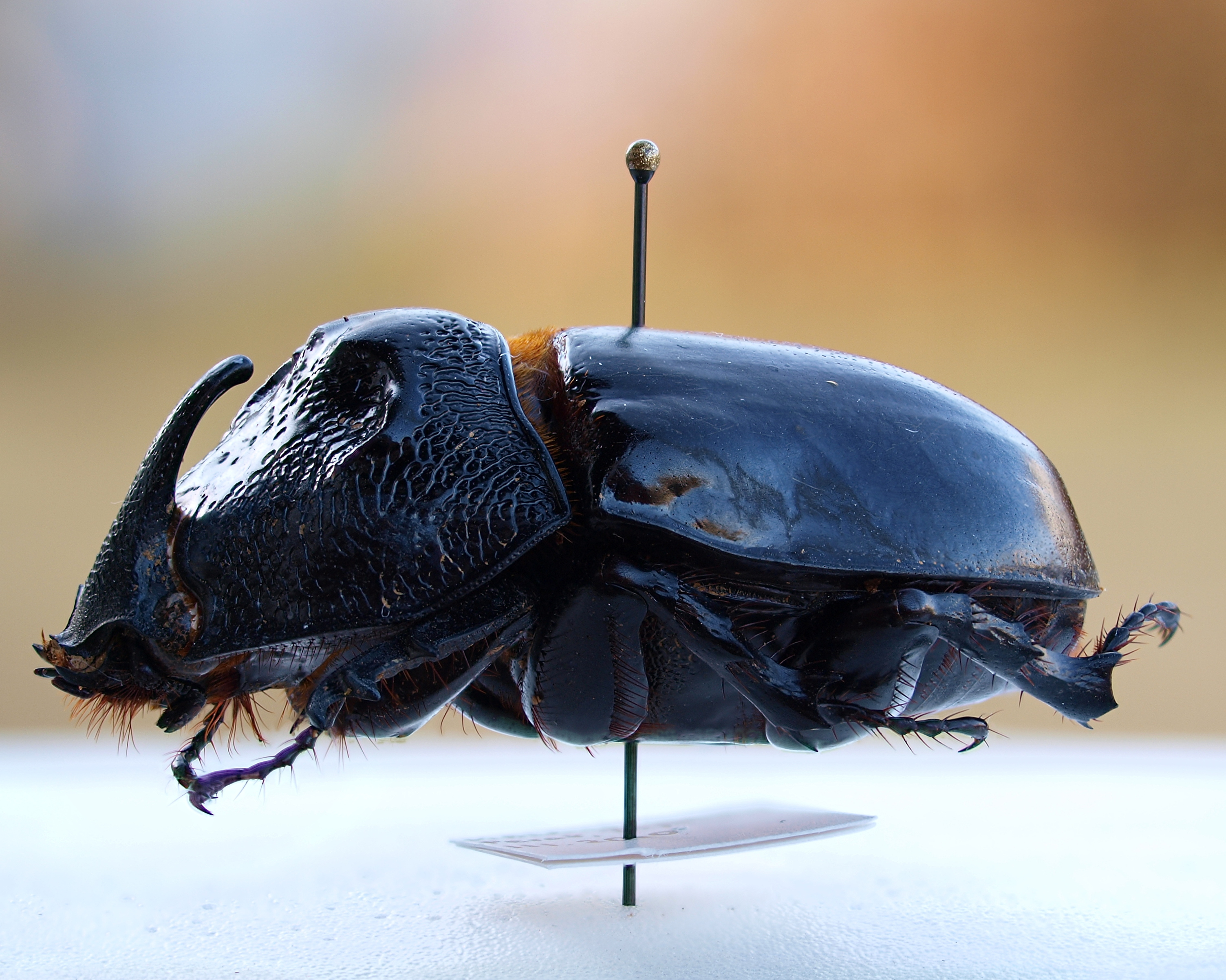 Trichogomphus lunicollis, female